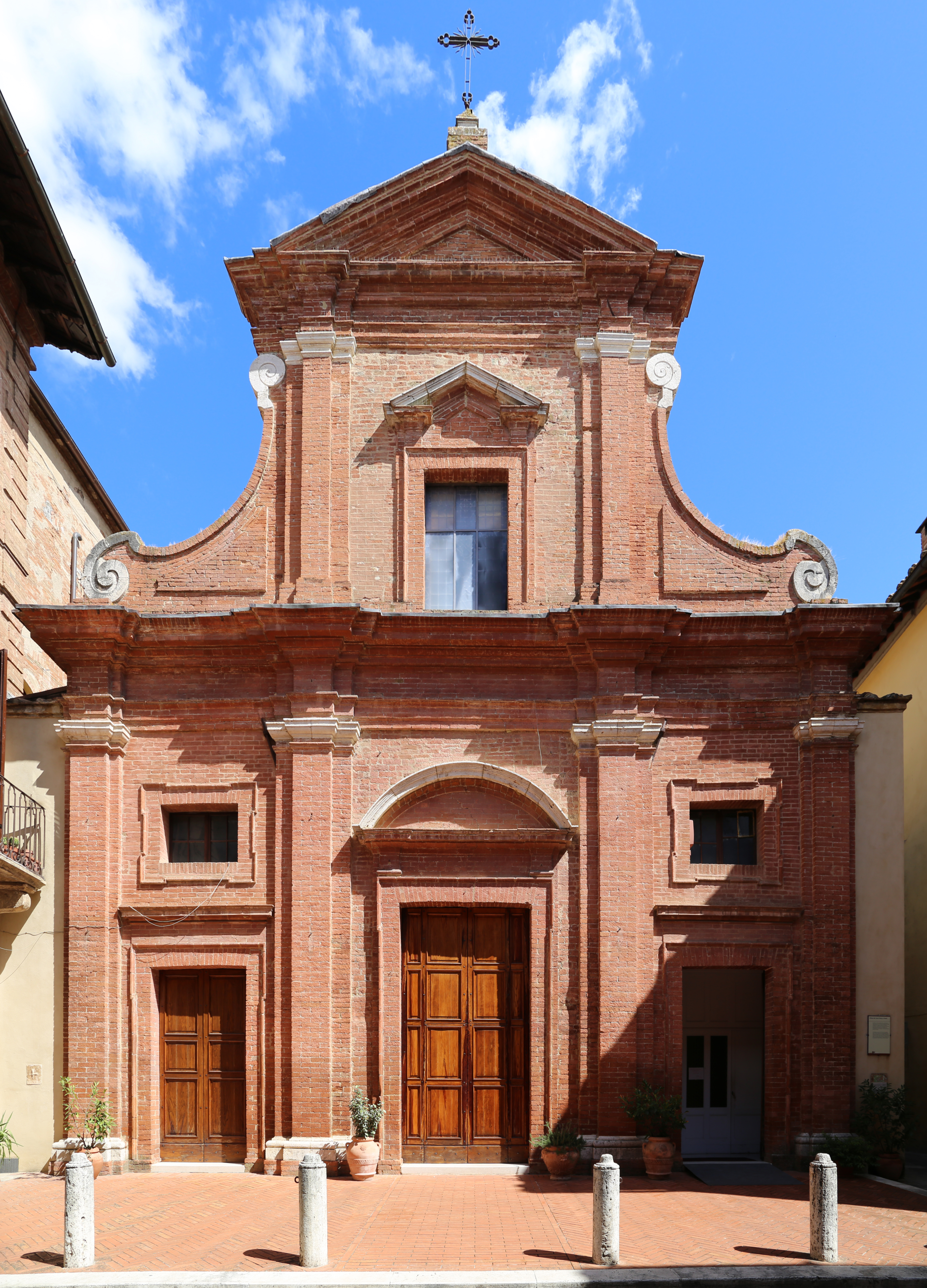 Chiesa dei Santi Pietro e Paolo (Buonconvento)